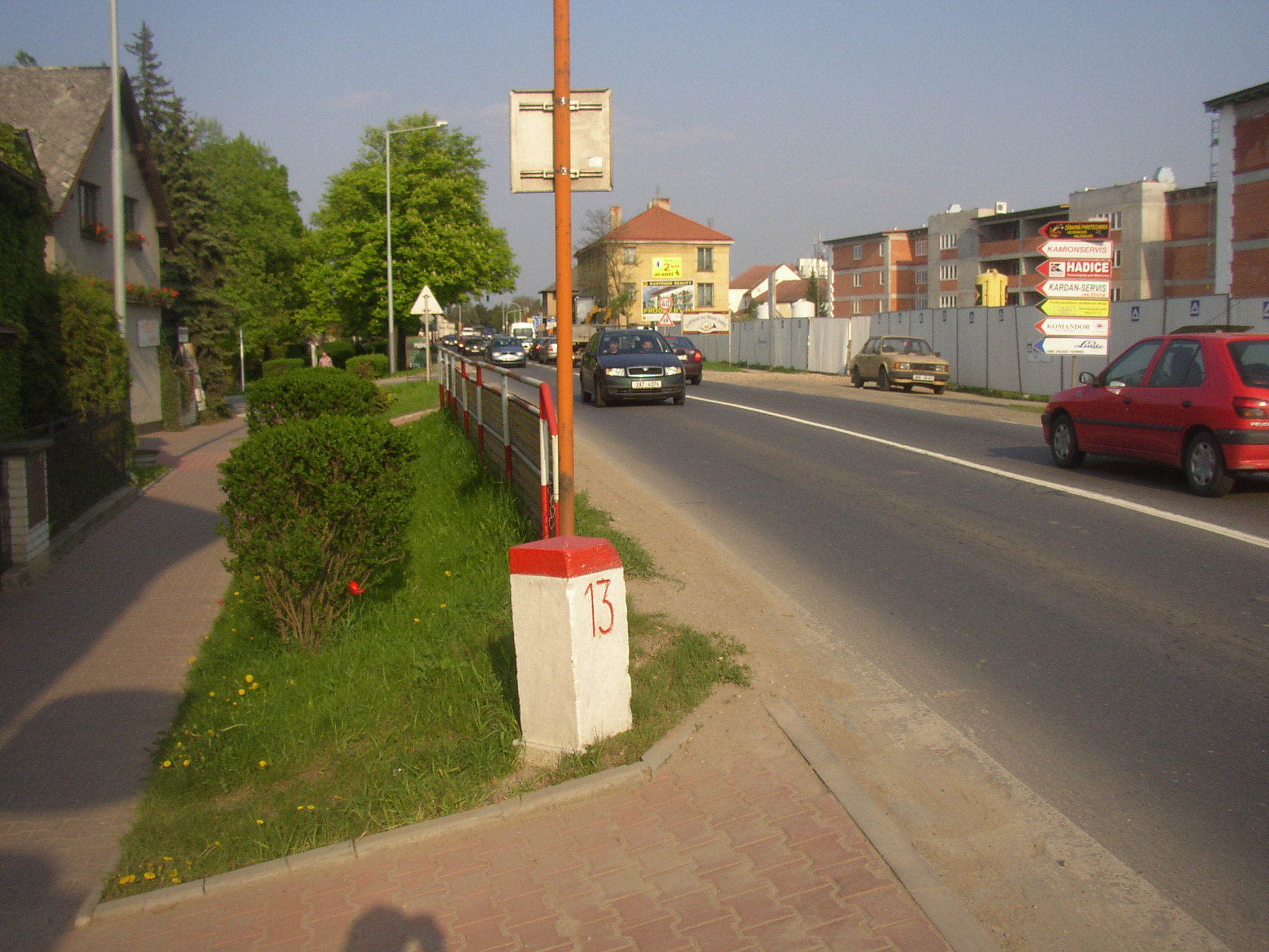 Kilometre stone 13 in Prague-Běchovice, Czech Republic). The starting spot of the oldest annual running race in Europe.